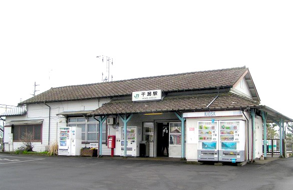 Higata Station, Sōbu Main Line, Asahi, Chiba Prefecture, Japan